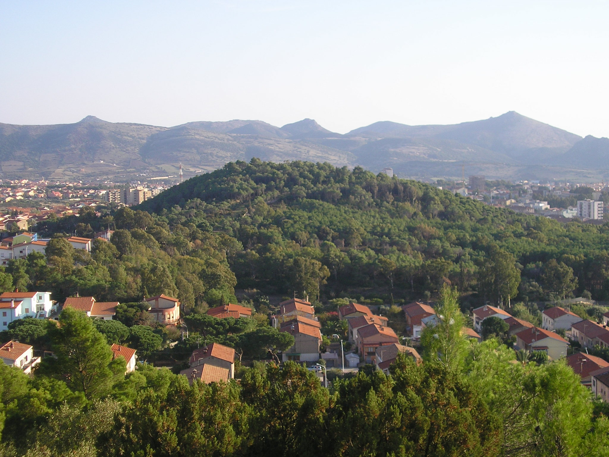 Mount Rosmarino in Carbonia, Sardinia, Italy, seen from Mount Leone